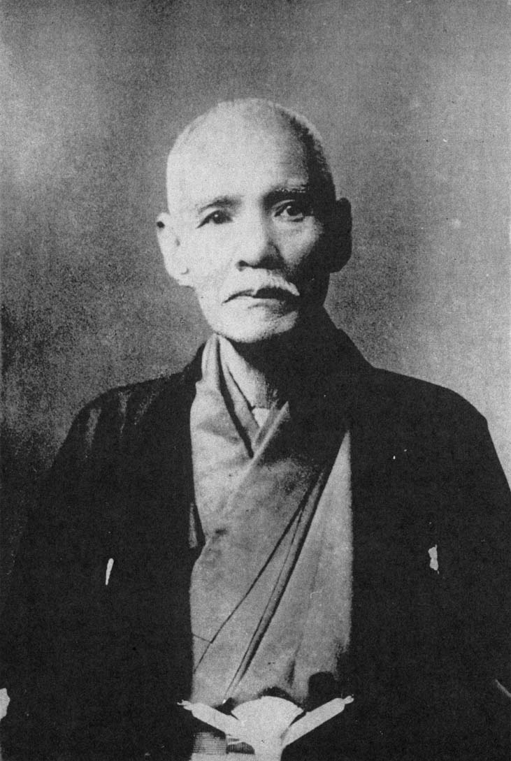 Sakurai Fusaki.